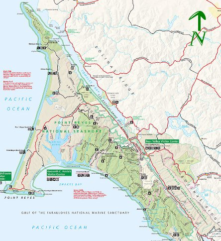 Park map of Point Reyes National Seashore, Northern California. Showing wilderness areas in light green.